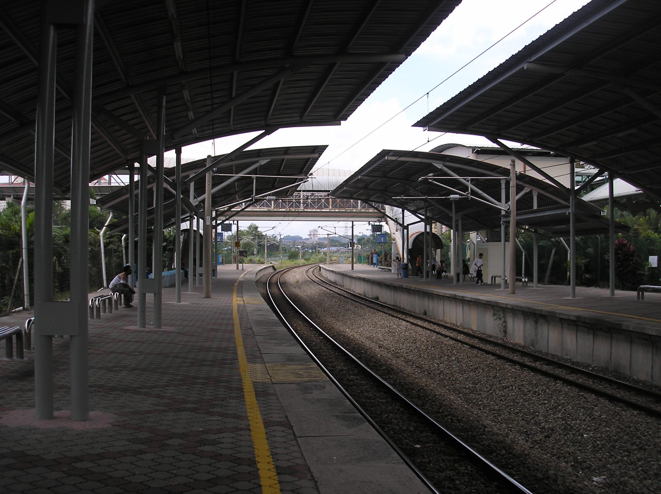 Platforms of Bandar Tasik Selatan station (Rawang-Seremban Line) in Kuala Lumpur, Malaysia, with new canopies added in early 2007.